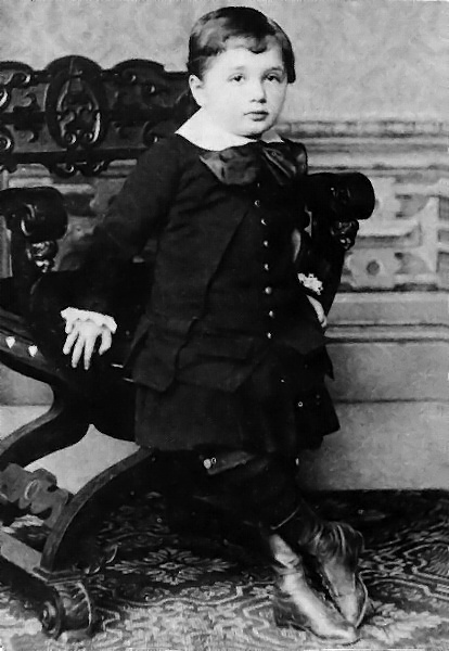 Albert Einstein at the age of three years. This is believed to be the oldest known photograph of Einstein.